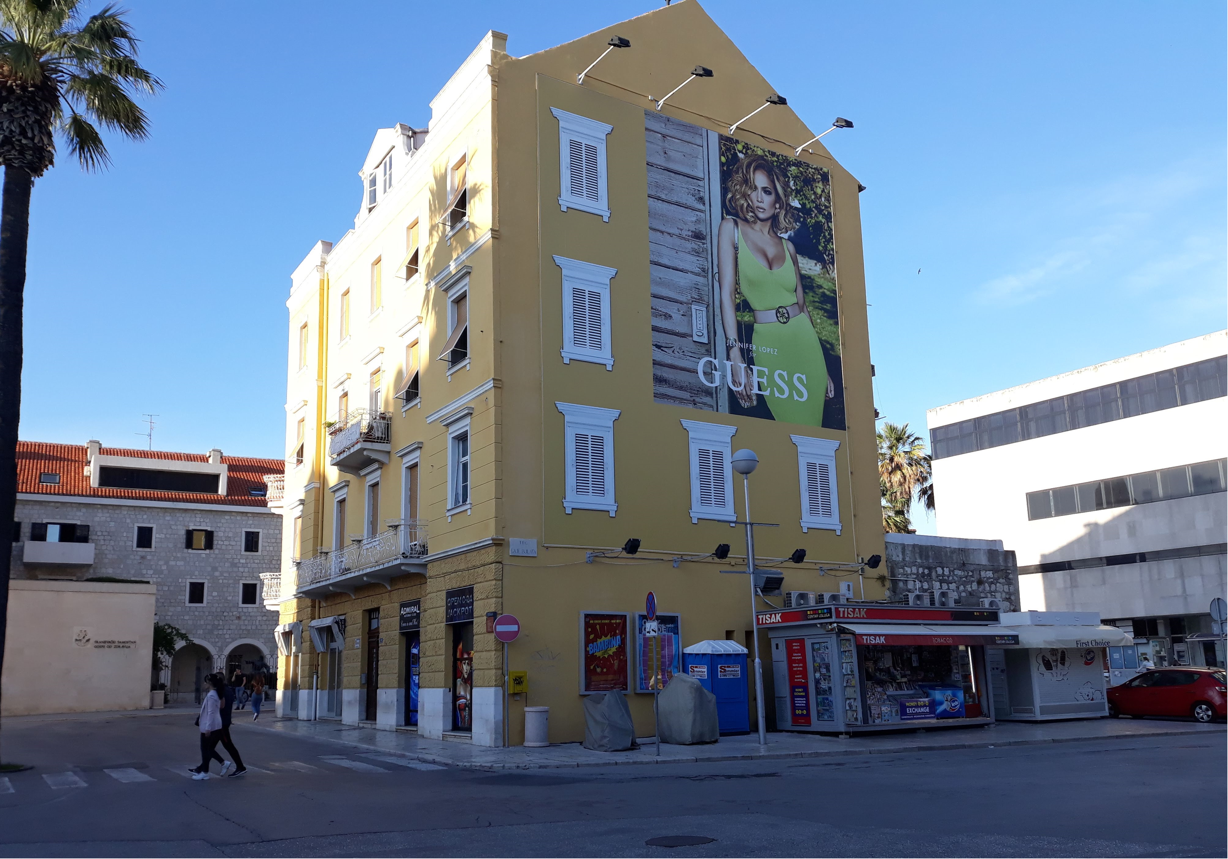 Jelaska House, Split